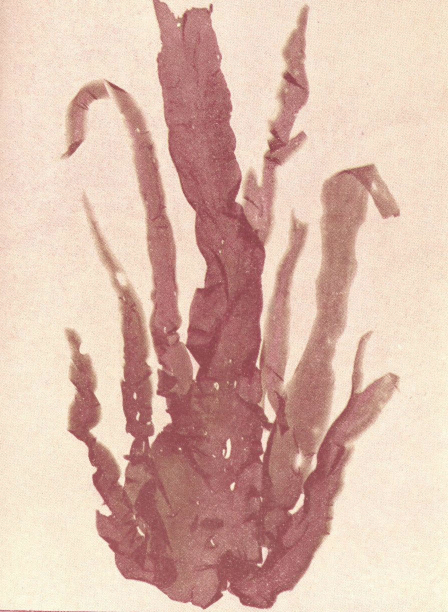 Subject: Porphyra, Red algae) Tag: Aquatic Botany